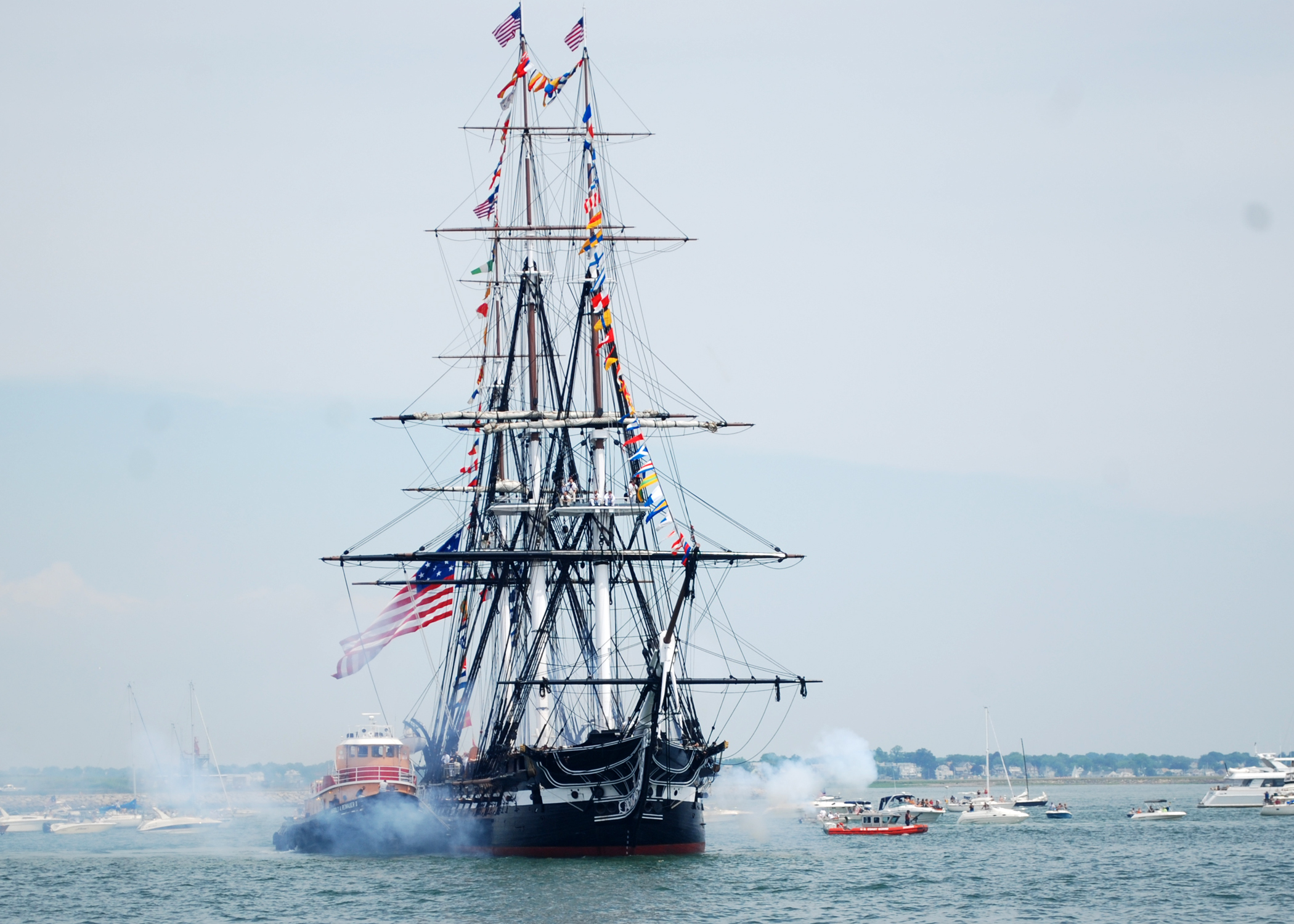 BOSTON (July 4, 2011) USS Constitution fires a 21-gun salute toward Fort Independence on Castle Island during the ship's July 4th underway as part of Boston Harborfest. The six-day Fourth of July festival showcases Boston's Colonial and maritime heritage to honor and remember the past, celebrate the present, and educate the future with reenactments, concerts and historical tours. (U.S. Navy photo by Mass Communication Specialist Seaman Shannon Heavin/Released)